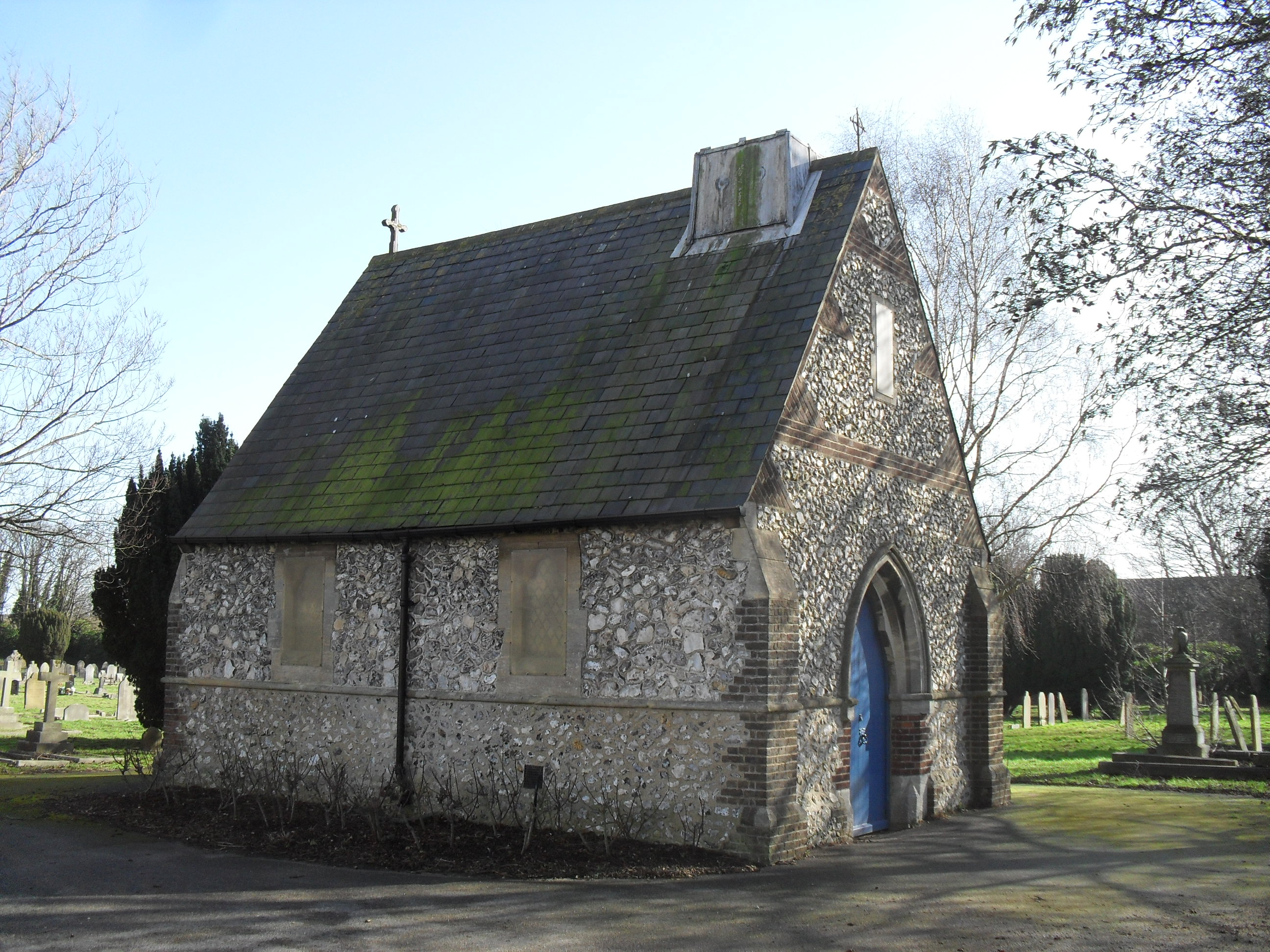 Mortuary chapel at Portslade Cemetery, Victoria Road, Portslade, City of Brighton and Hove, England. Designed in 1872 by Edmund Scott.